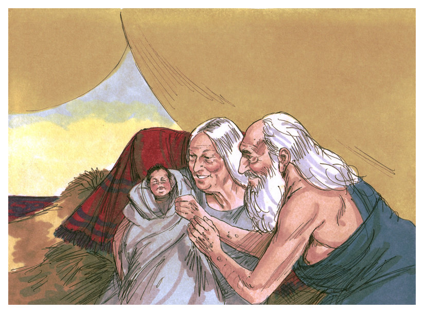 Biblical illustration of Book of Genesis Chapter 21